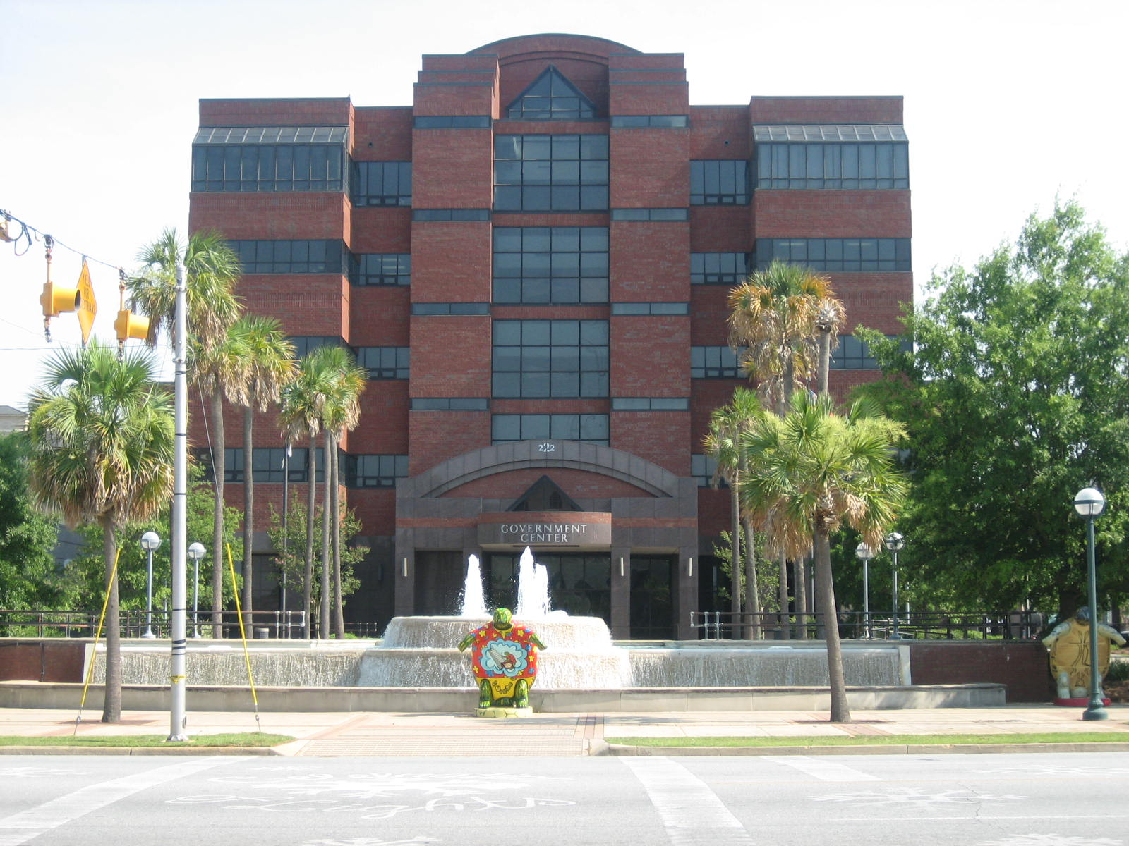 The postmodern Albany Government Center, downtown Albany, Georgia